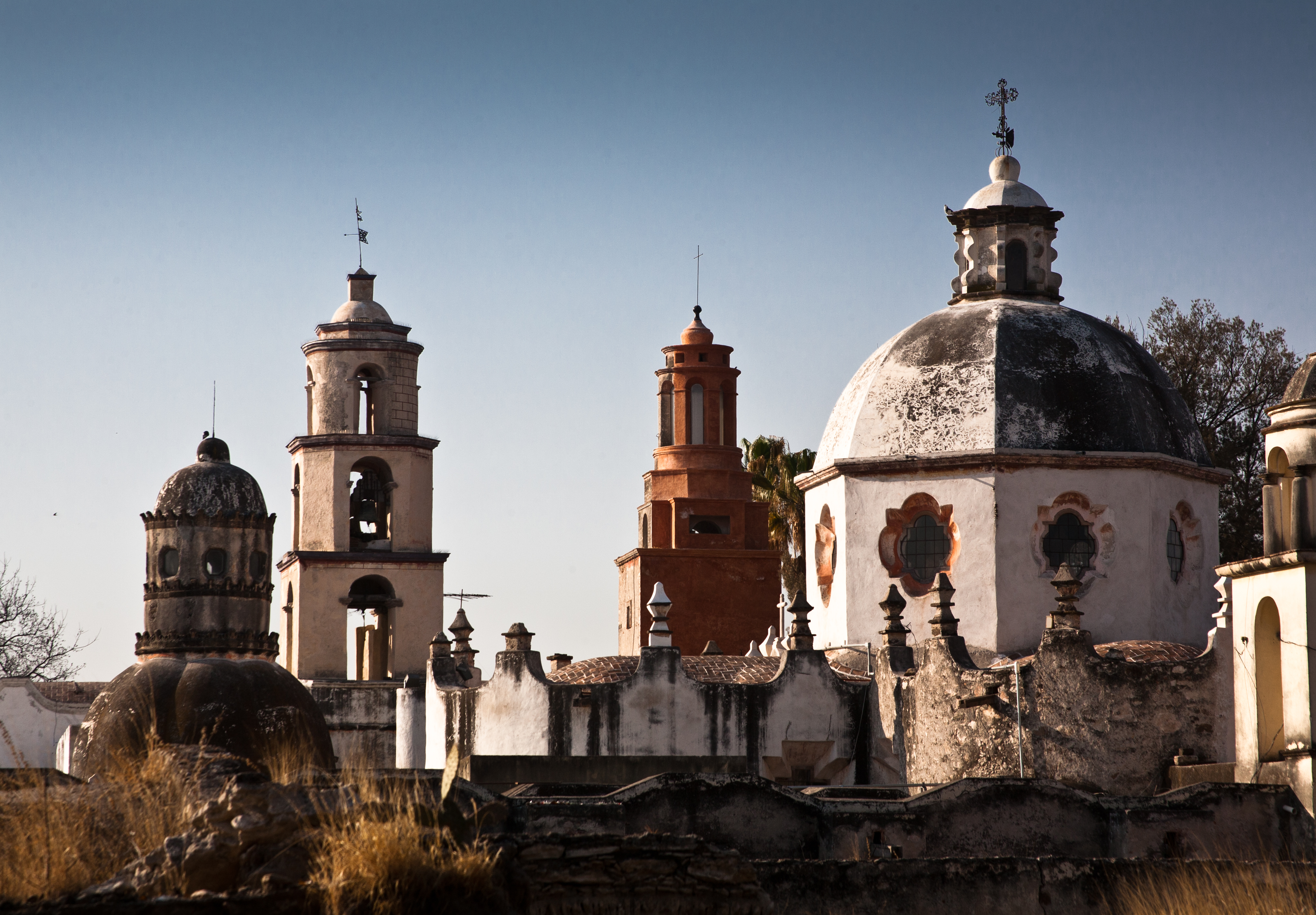 Church of Atotonilco, Guanajuato, Mexico.